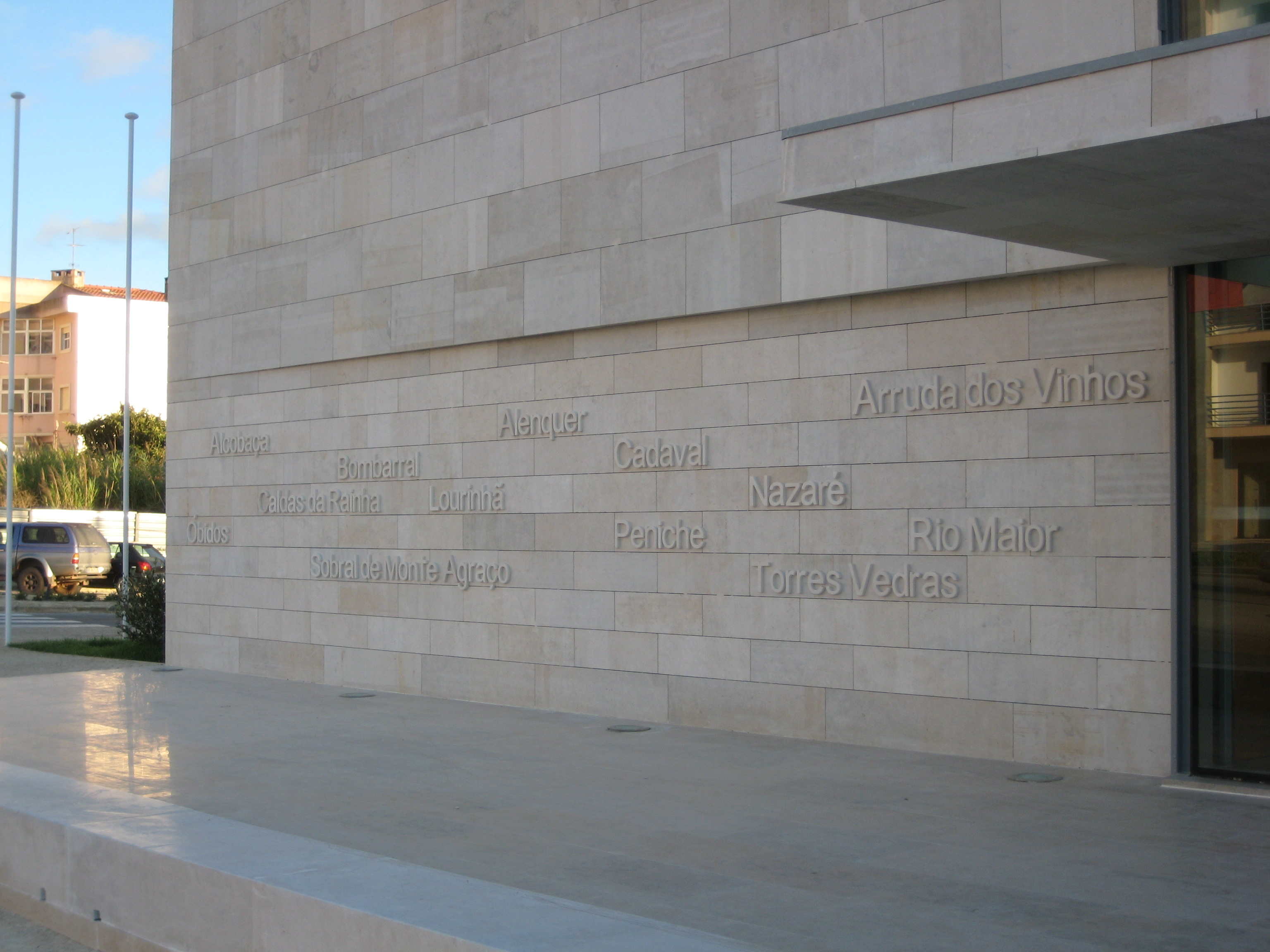 Headquarters of Associação de Municípios do Oeste